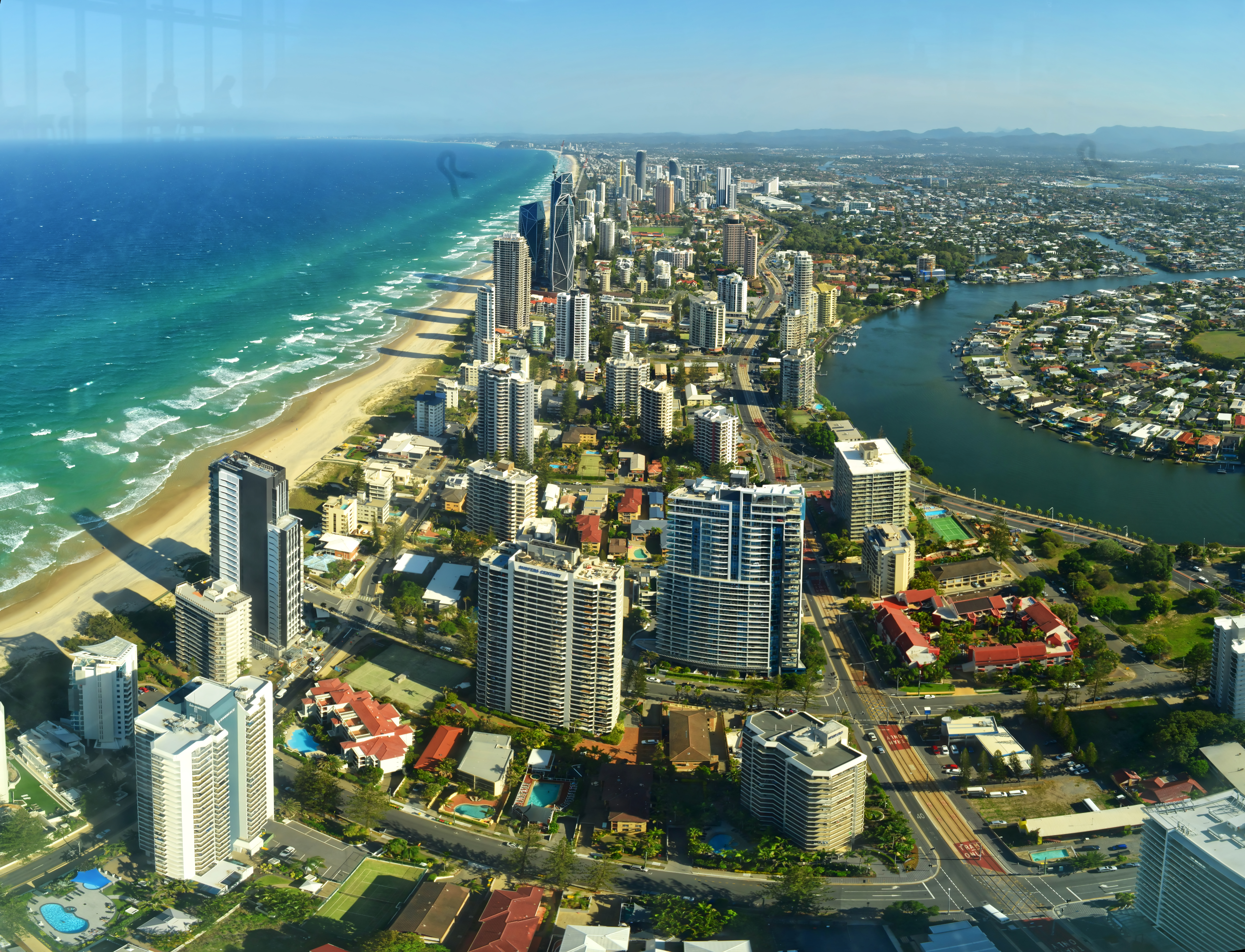 The southwards panorama of Gold Coast taken from Q1 Skypoint on Mar 13, 2019